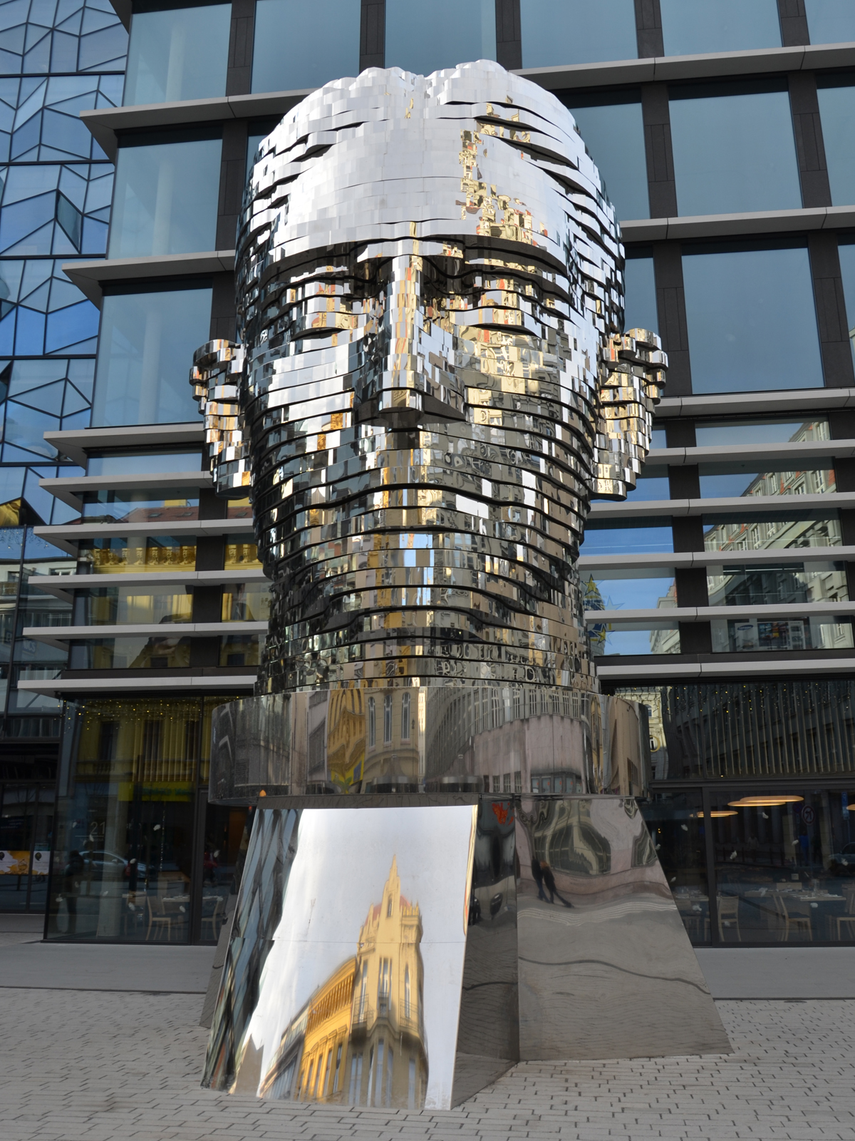 David Černý, kinetic Head of Franz Kafka, Prague